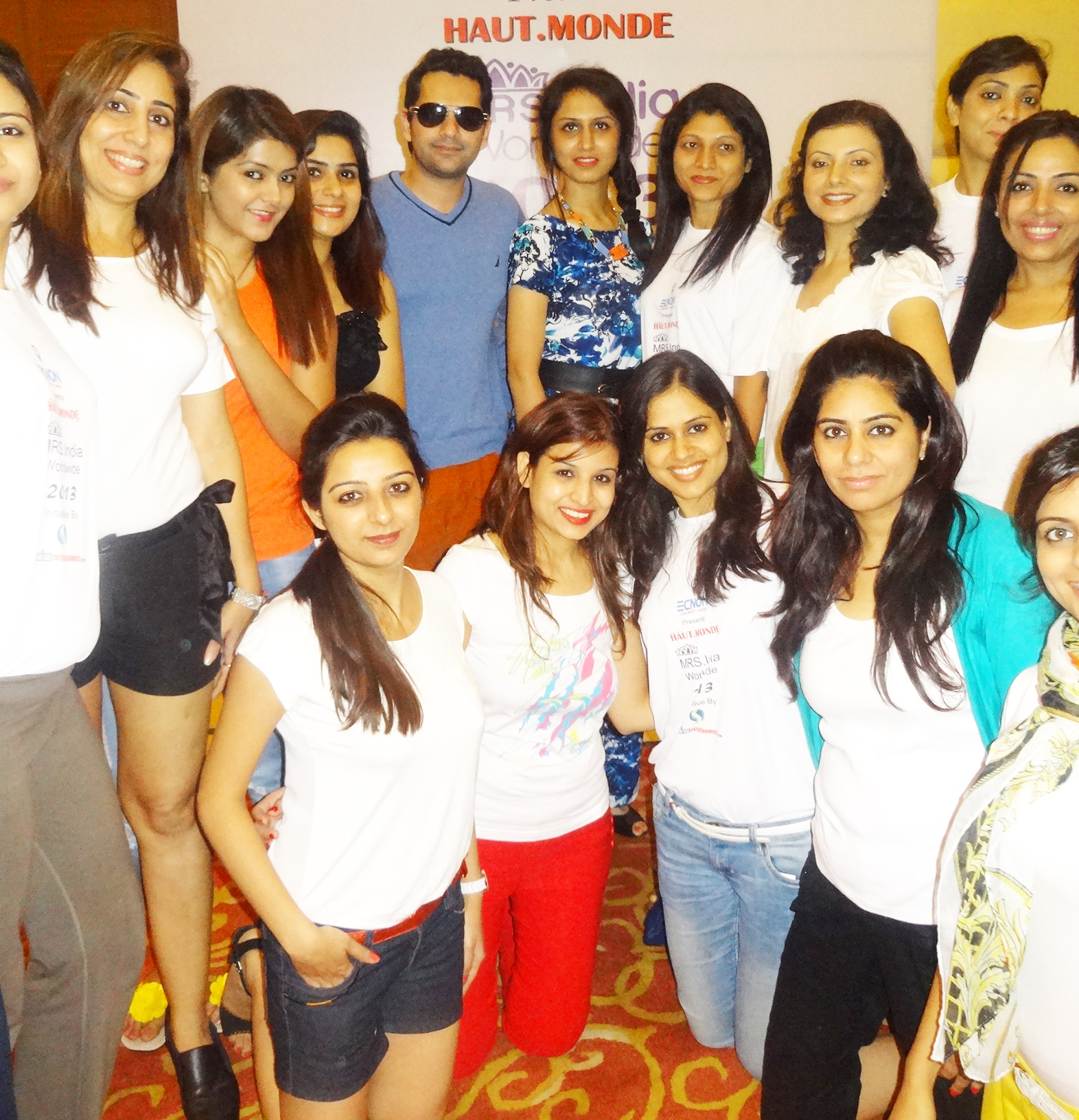 Gaurav Nanda Mrs.India Worldwide Workshop Contestants